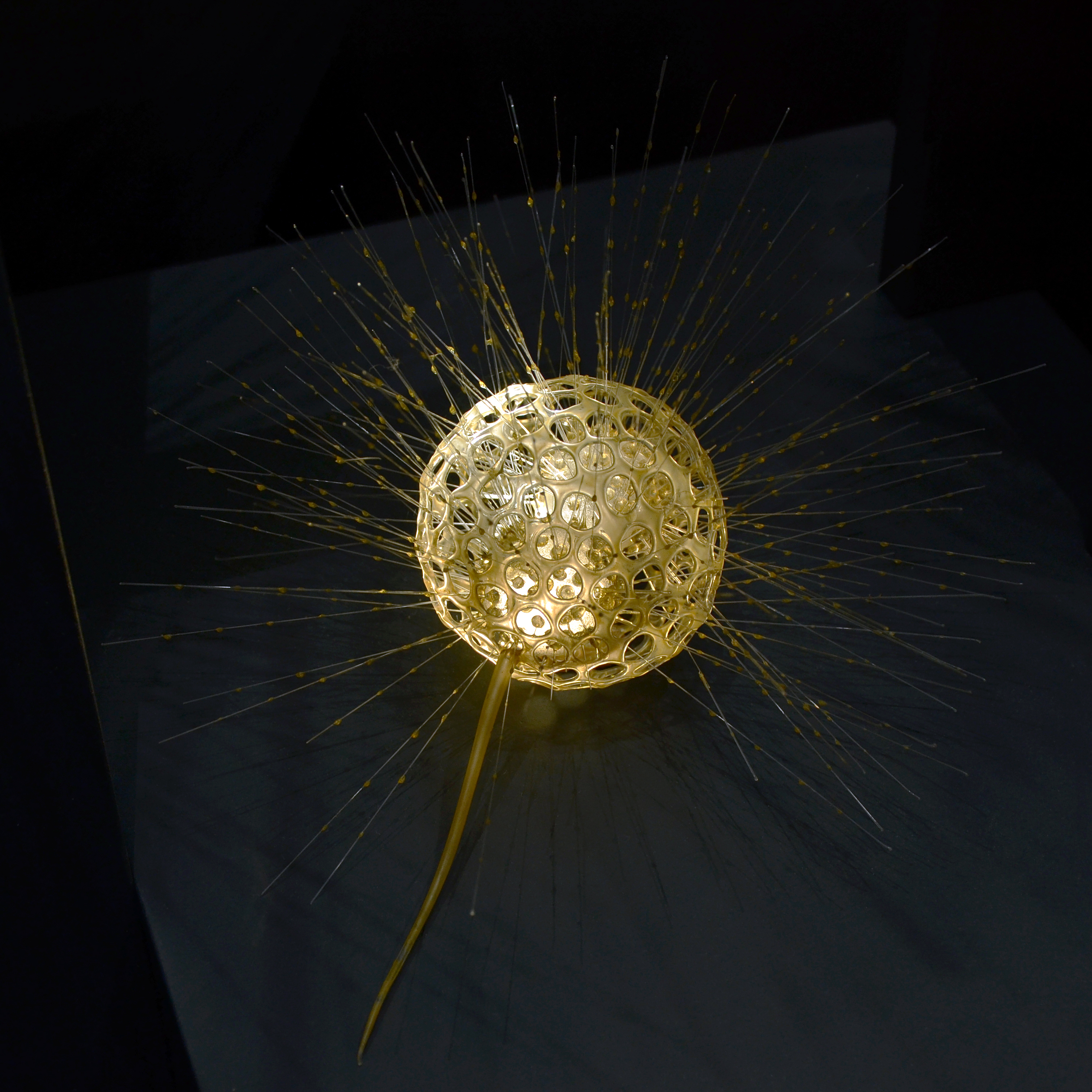 Blaschka glass model in the Muséum d'histoire naturelle de Genève : Clathrulina elegans.